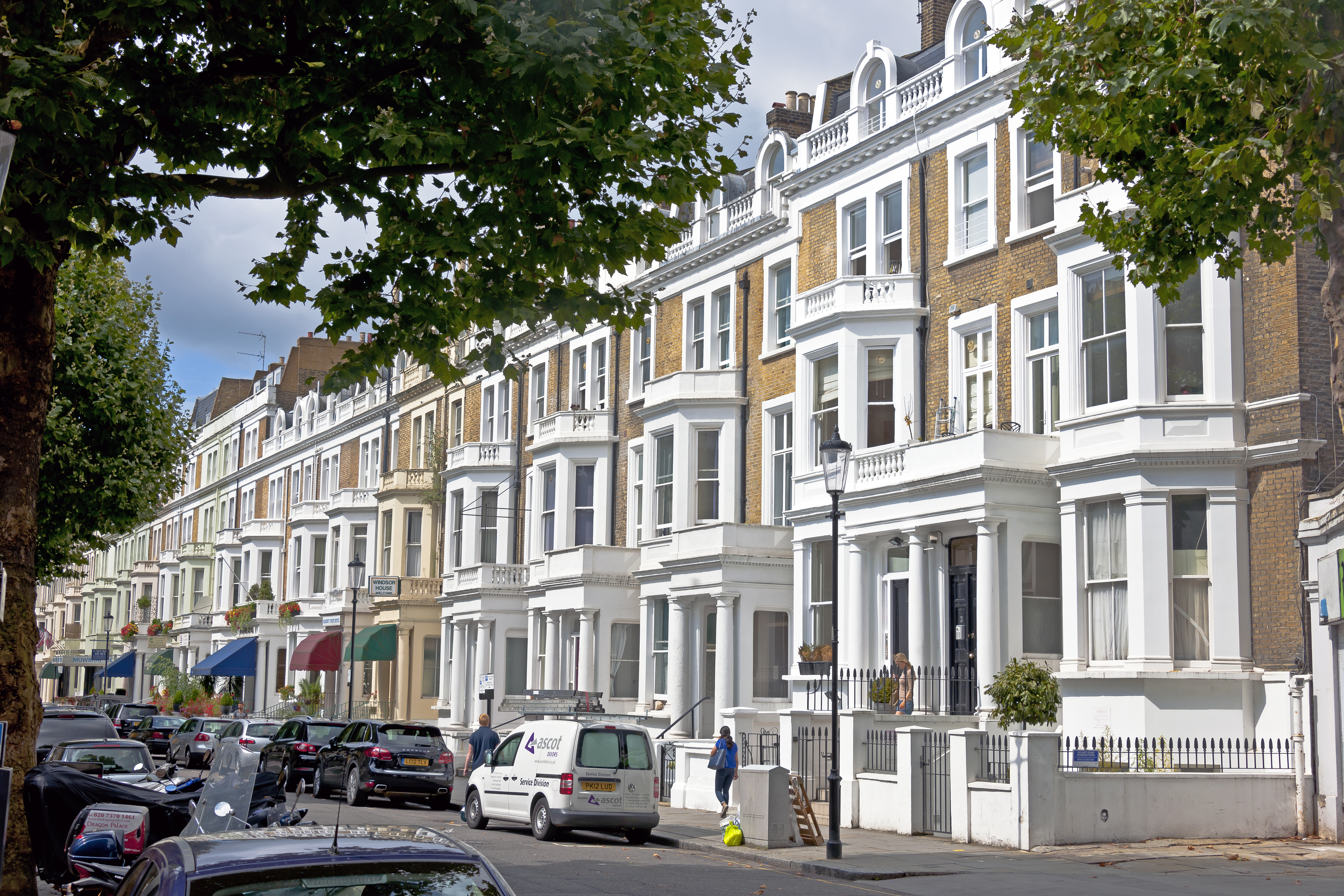 Attached houses (some used for business purposes or as hotels) on Courtfield Gardens in the London neighborhood of Earls Court.